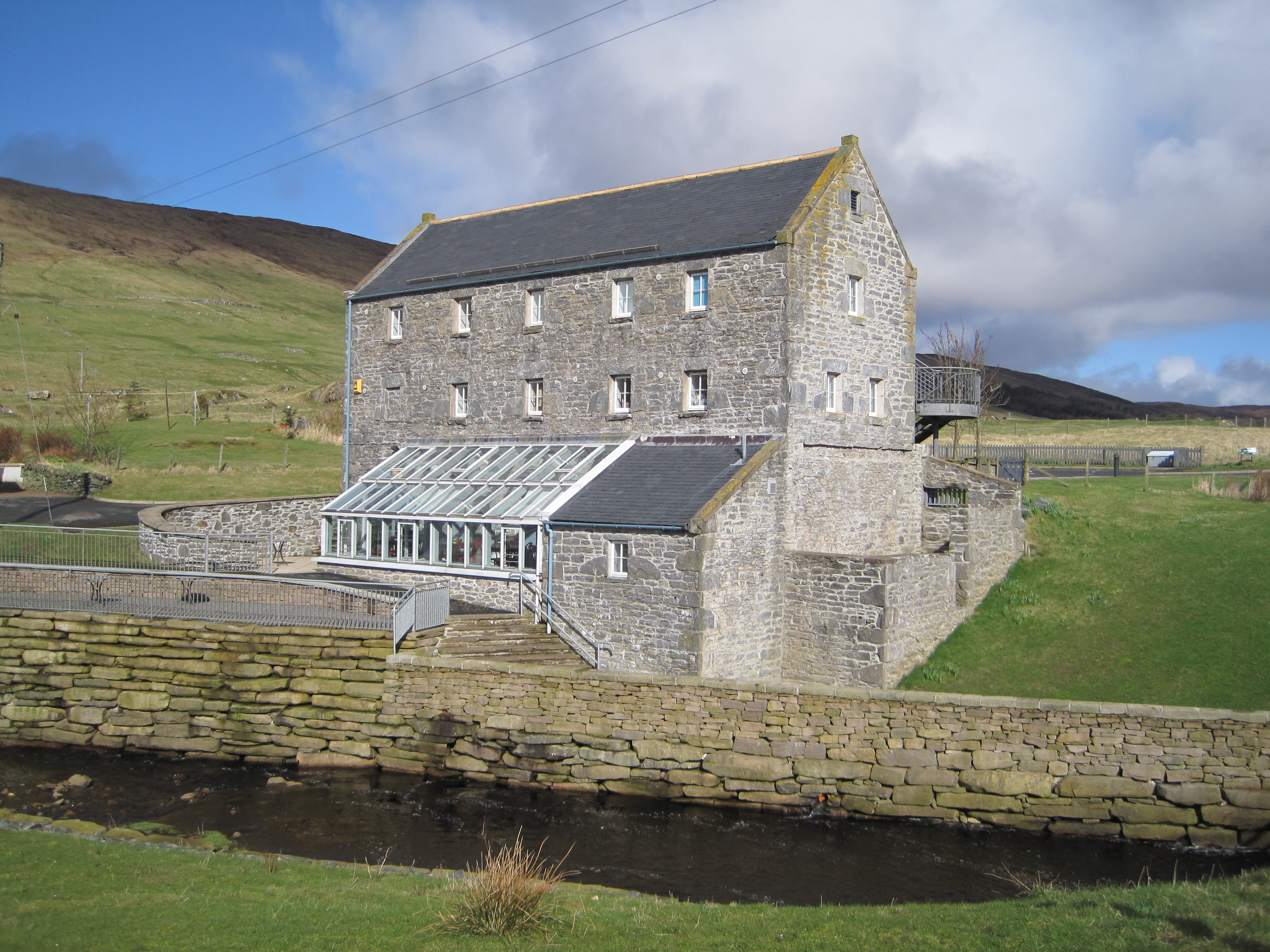 Picture of the Weisdale Mill, Weisdale, Shetland